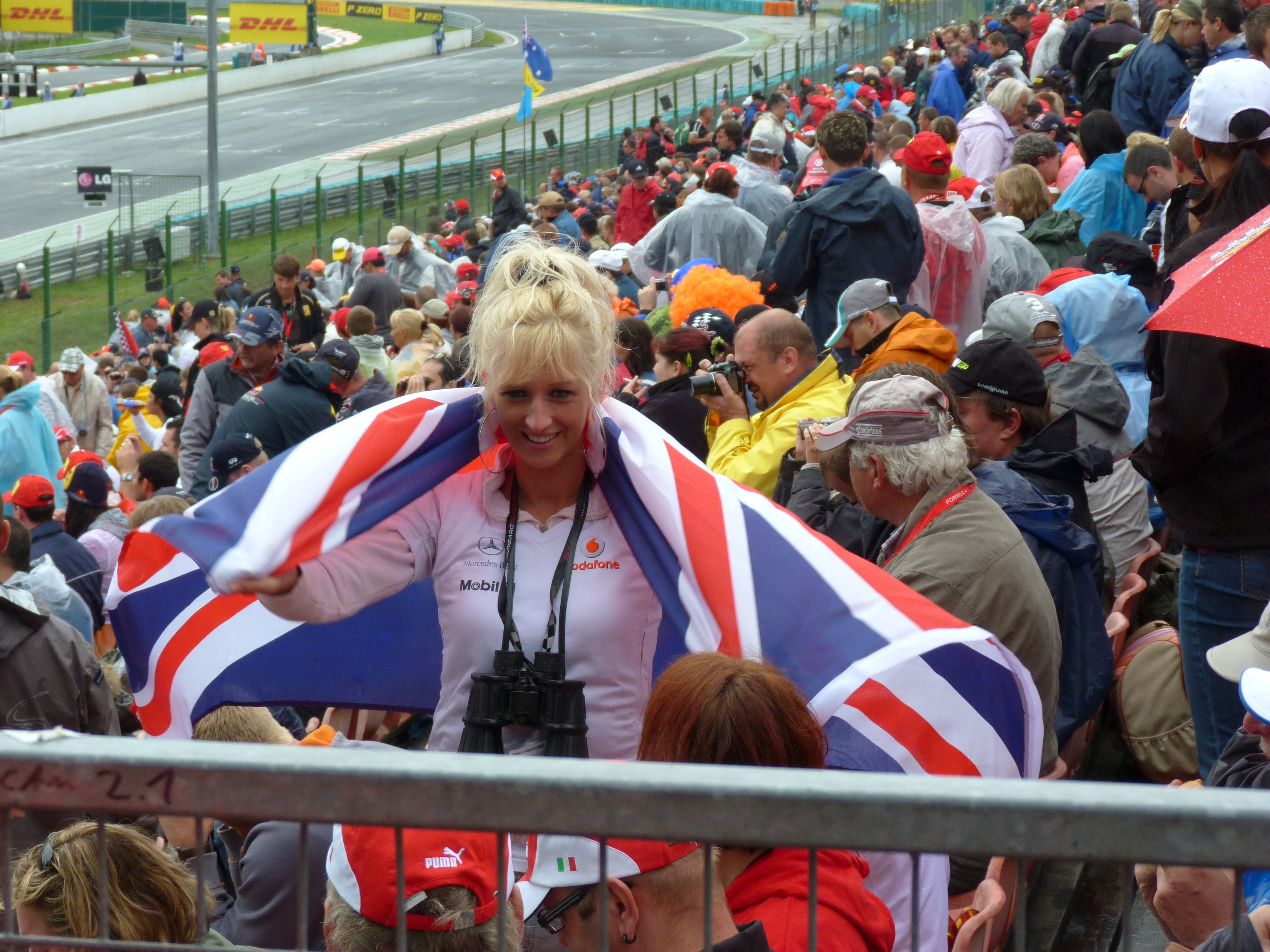 Live on the 31 st of July, 2011. Hungaroring, Mogyoród, Hungary. The 26 th Formula 1 Hungarian Grand Prix started at 2 pm. British fan. Budapest has always been special place for Jenson Button: it was here that he took his first Grand Prix win five years ago - and it is here that he has taken victory in his 200th Grand Prix. Red Bull's Sebastian Vettel stretched his commanding lead in the championship with a second-place finish in wet conditions Sunday.